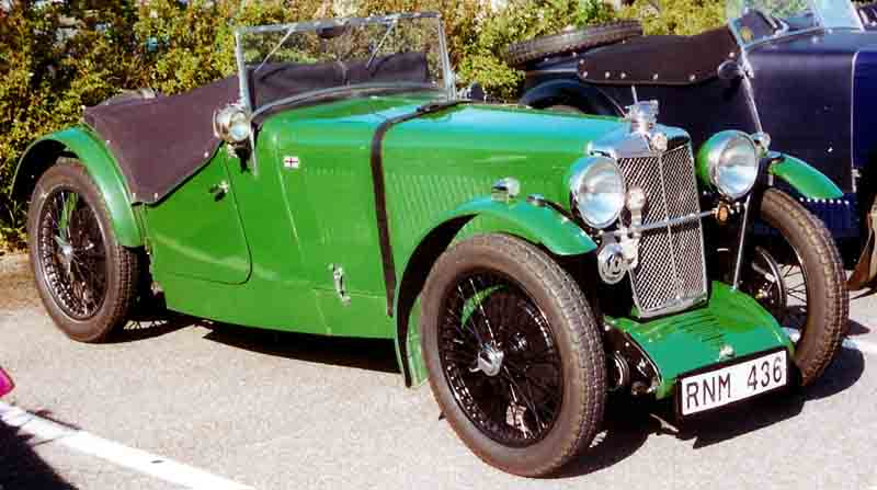 M.G. F2 Magna 2-Seater Sports 1932